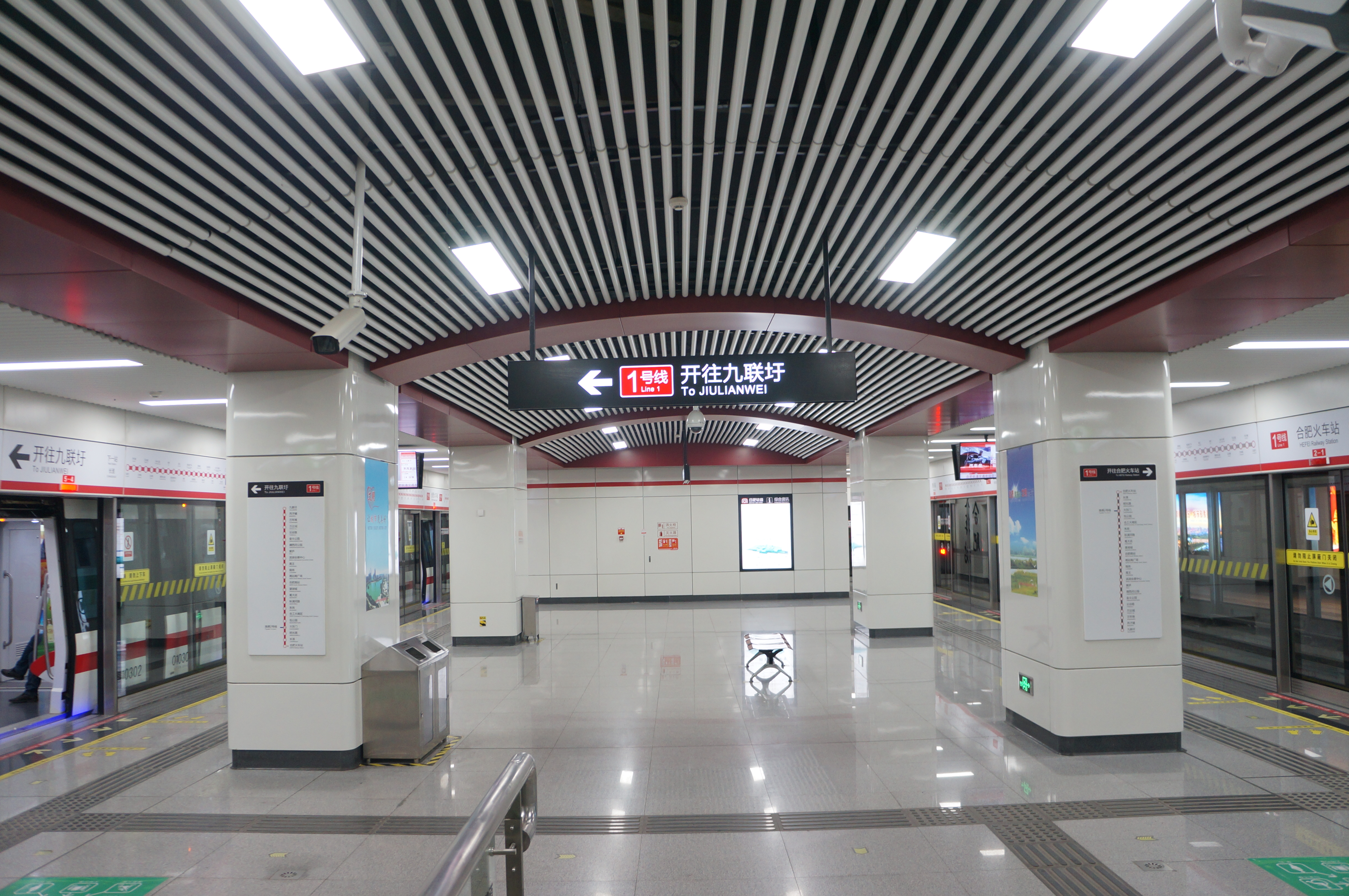 201705 Platform of Metro Hefei Railway Station